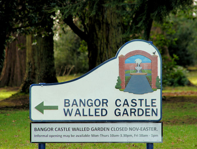 Sign, Castle Park, Bangor (3). See 364186. Another of the attractive signs - this one shows the way to the walled garden 1023227.